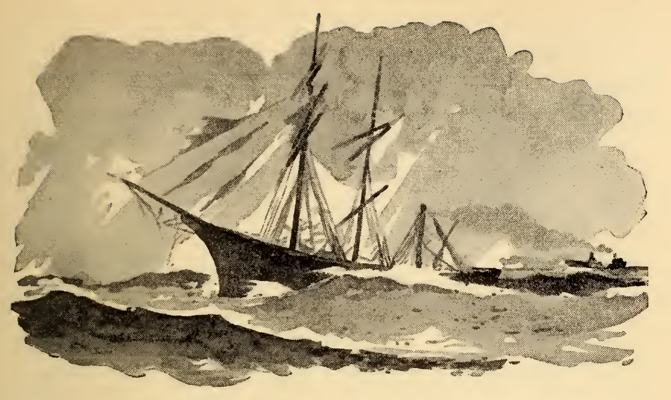 Illustration from The Cradle of the Deep (written by Joan Lowell, illustrated by Kurt Wiese), The wreck of Star ship.